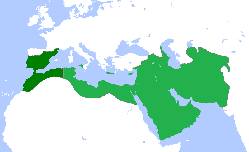 Locator map for the Abbasid Caliphate at its greatest extent, before the independence of al-Maghrib (Morocco and parts of Algeria) in 744 as well as al-Andalus (Spain and Portugal) 756